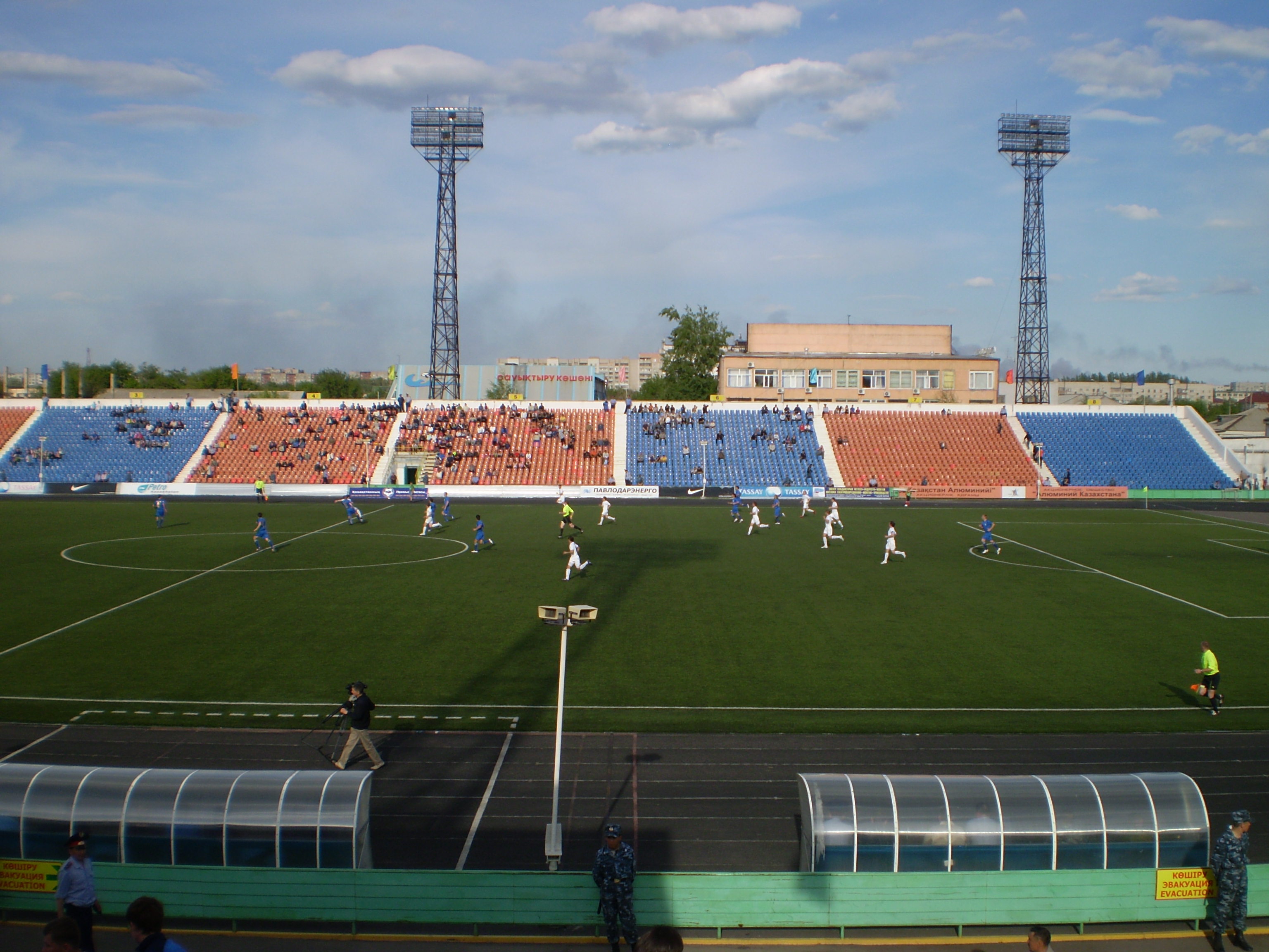 FC Irtysh plays on homefield stadium Tsentralny with Ordabasi FC. 2009, Kasakhstan cupб 1\8 final.